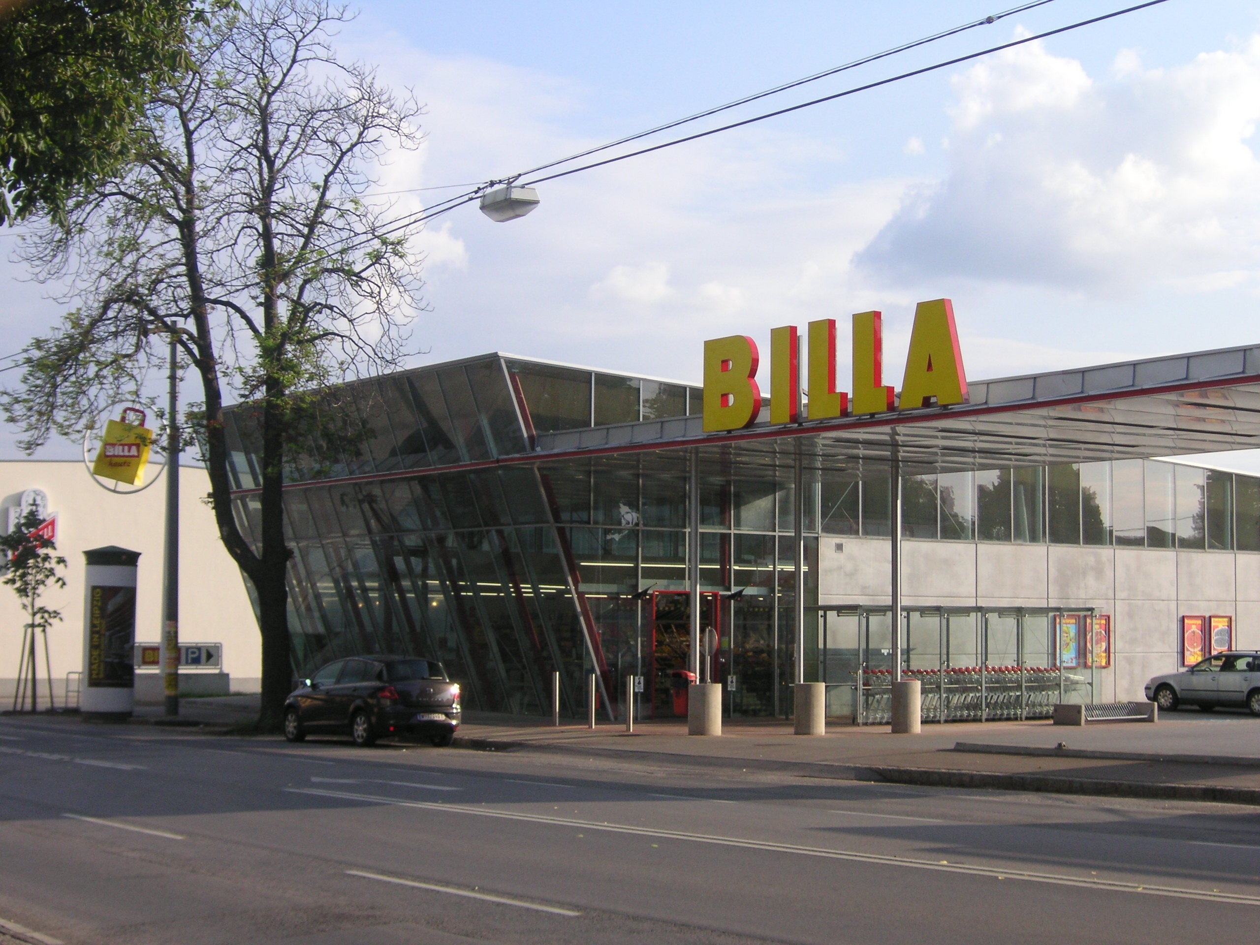 Billa, Himbergerstraße 24-26, Favoriten, Vienna, Austria. Photo by KF, June 2006.